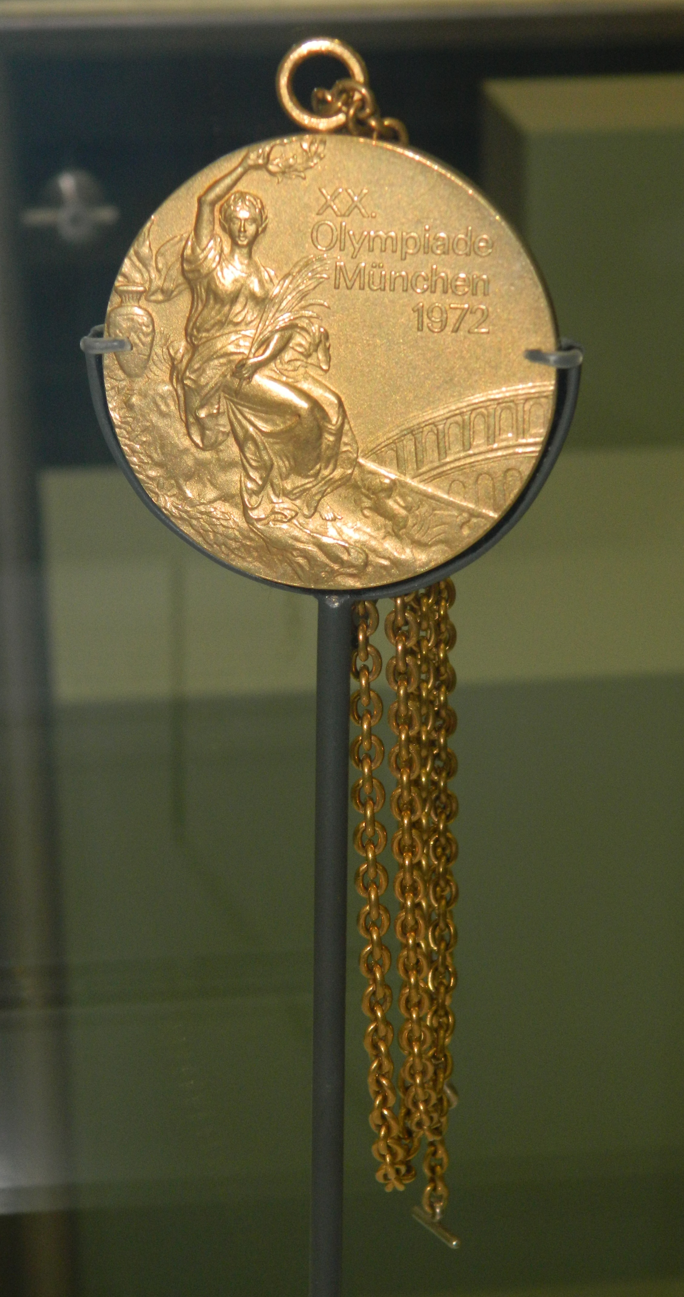 Gold medal won by Dame Mary Peters for the Women's Pentathlon in the Munich Summer Olympics 1972. In the Ulster Museum.